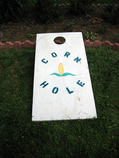 Photo taken by user:mmeinhart on 07/18/05